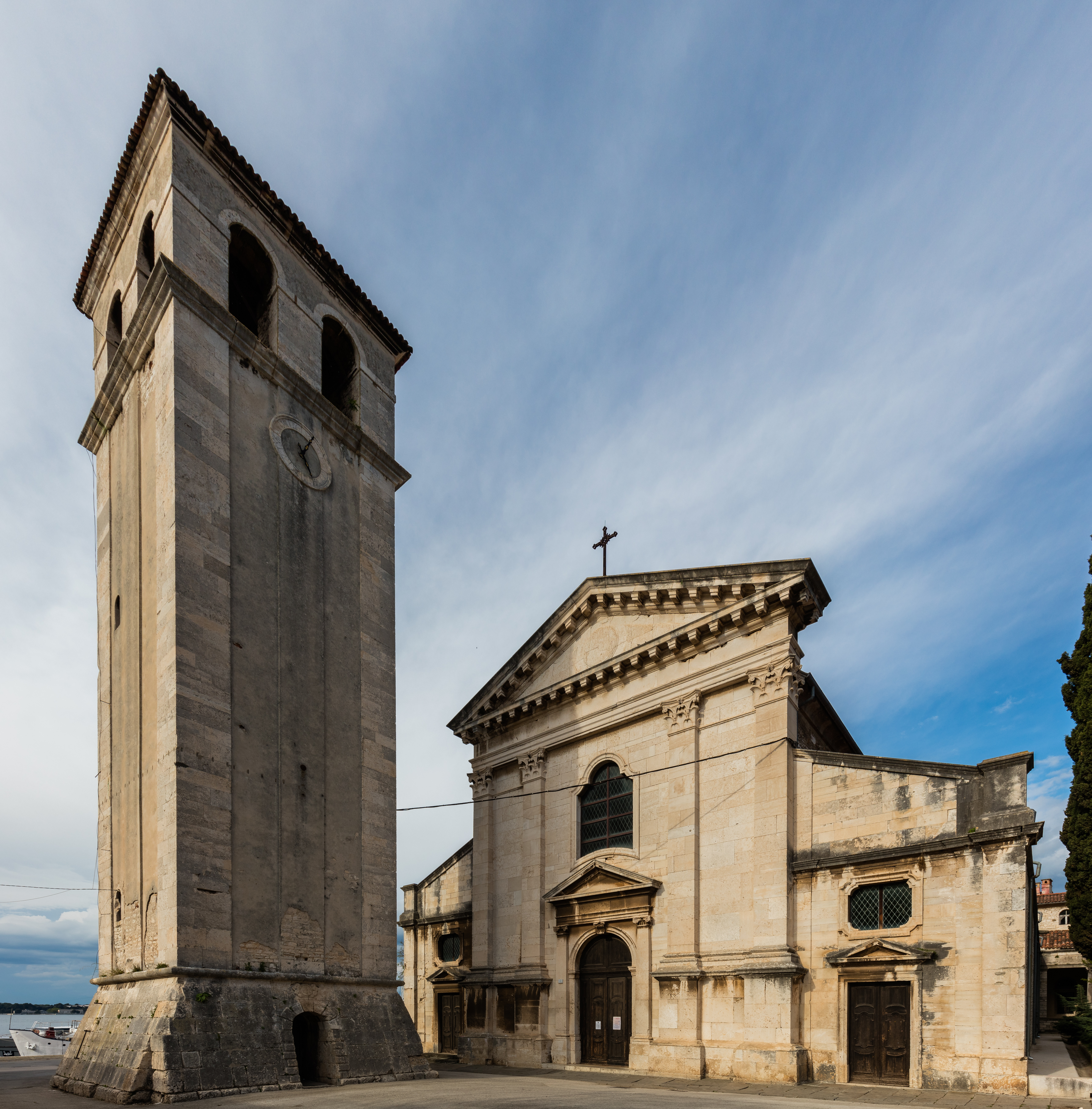 Pula cathedral, Croatia. This is a a photo of a cultural heritage in Croatia with ID: Z-4448